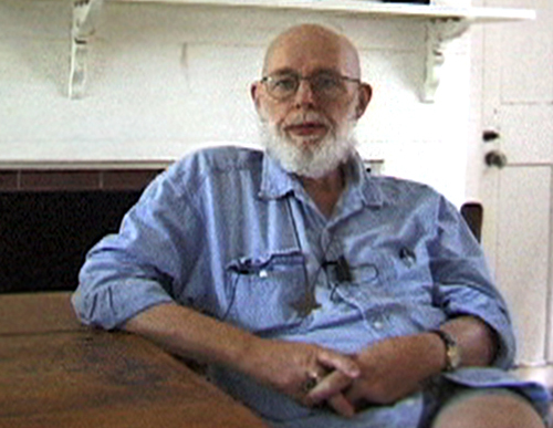 The late illustrator Edward Gorey in the kitchen of his home at Yarmouth, Cape Cod in August, 1999.